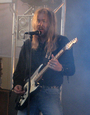 Timo Nikki, the vocalist and guitarist of Finnish rock band Peer Günt